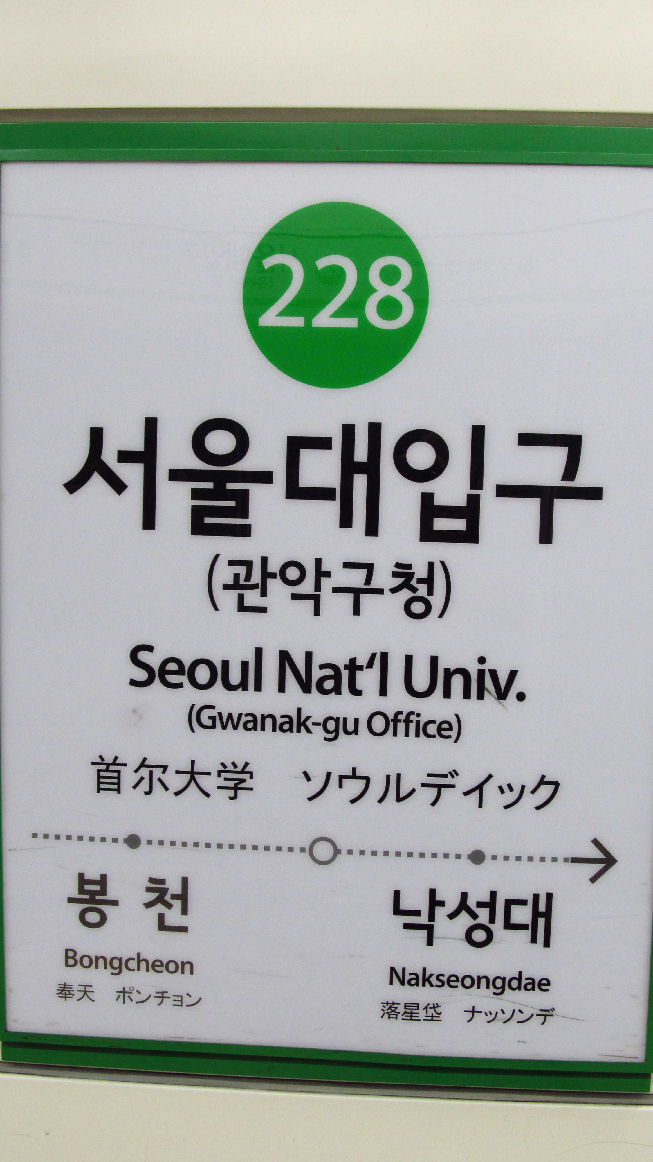 A sign of Seoul National University Station on Seoul Subway Line 2